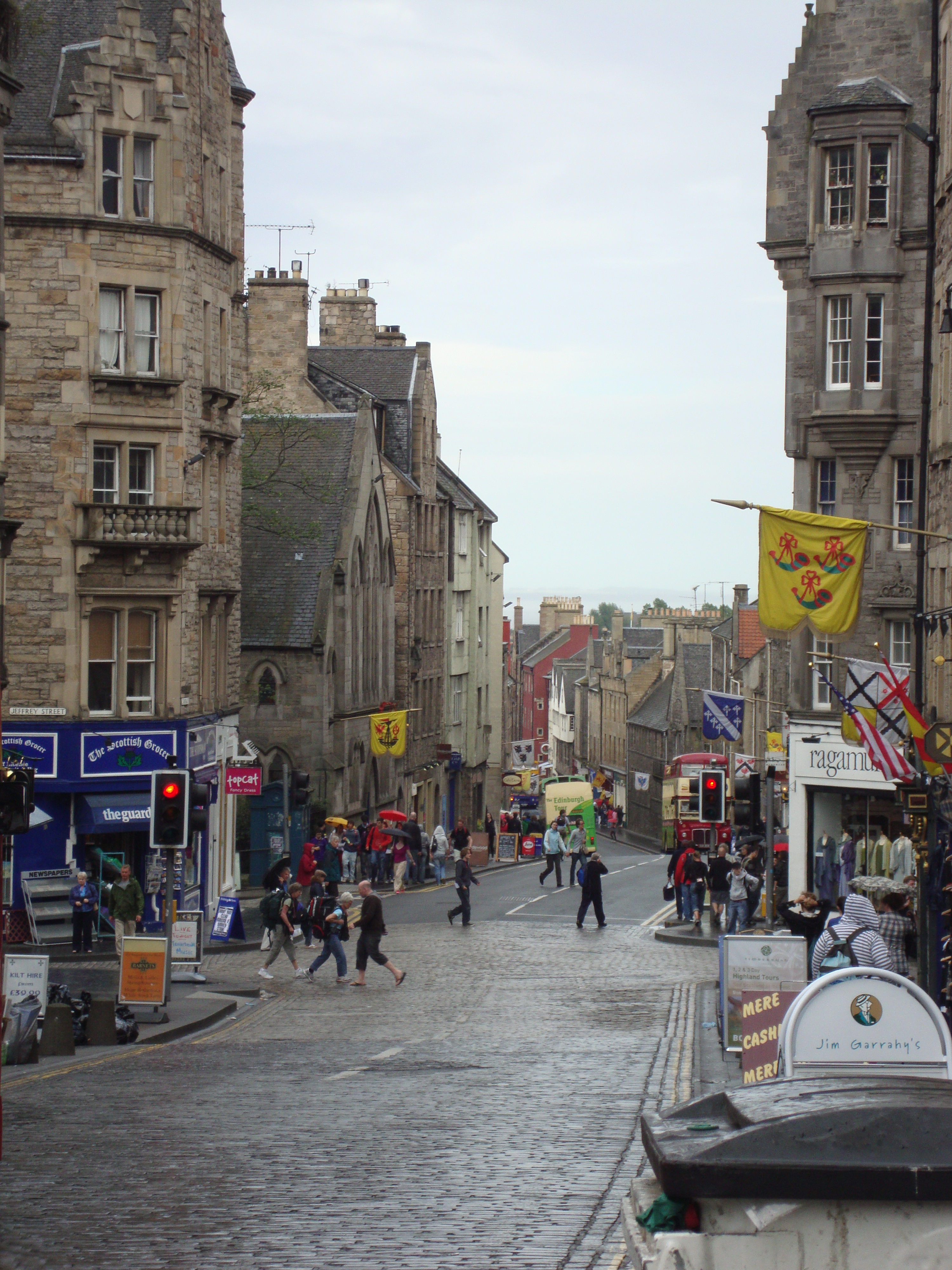 The Royal Mile in Edinburgh